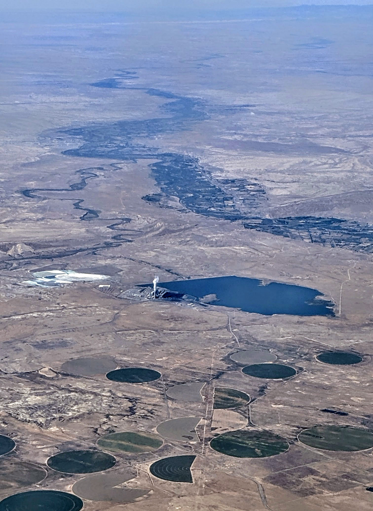 Four Corners Power Plant with Chaco River–San Juan River confluence at Shiprock, New Mexico, aerial view looking west-northwest toward Four Corners on departure from Durango–La Plata County Airport, Colorado